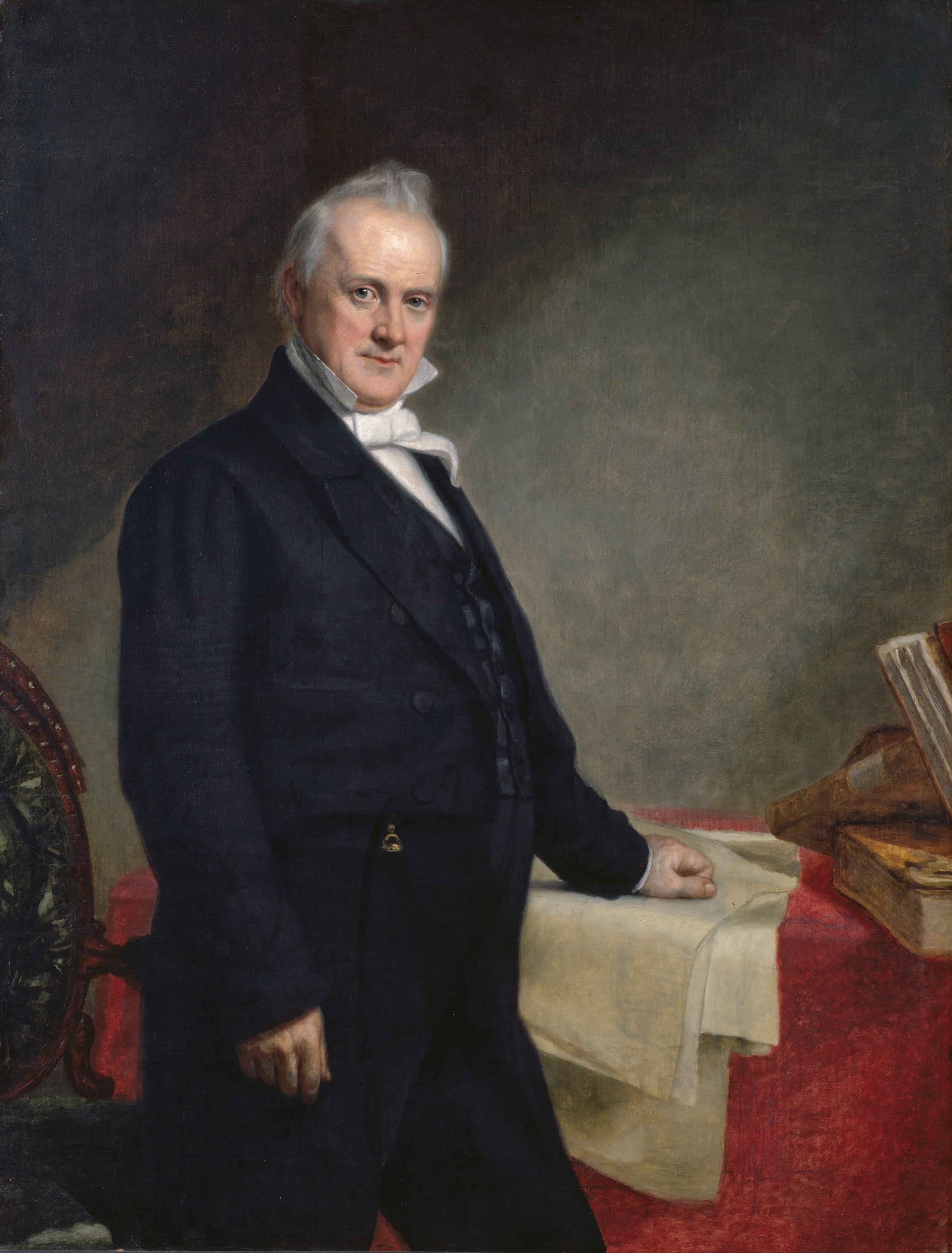 serving (1857-1861) as 15th President of the United States